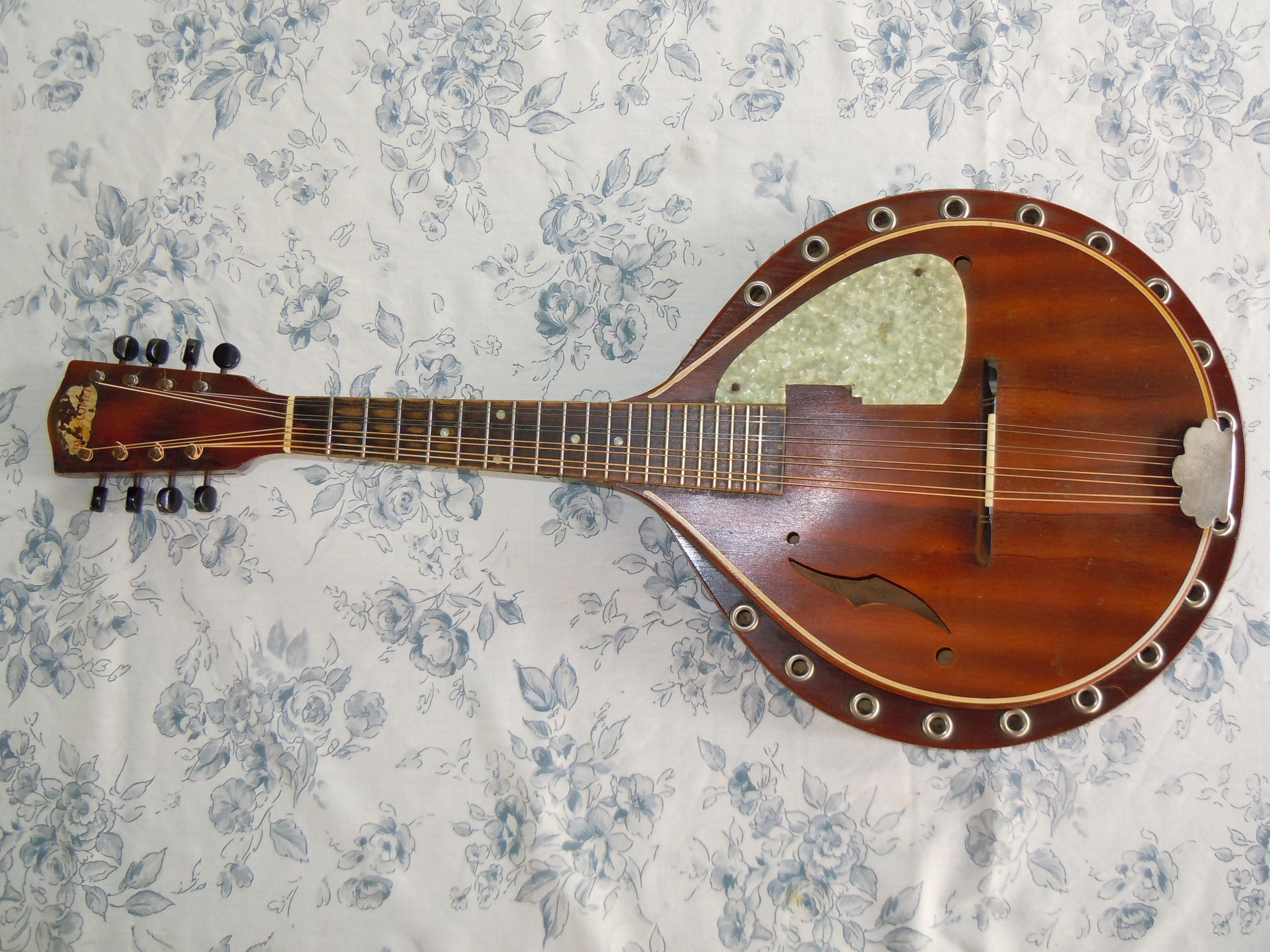 Regal Blue Comet front 4